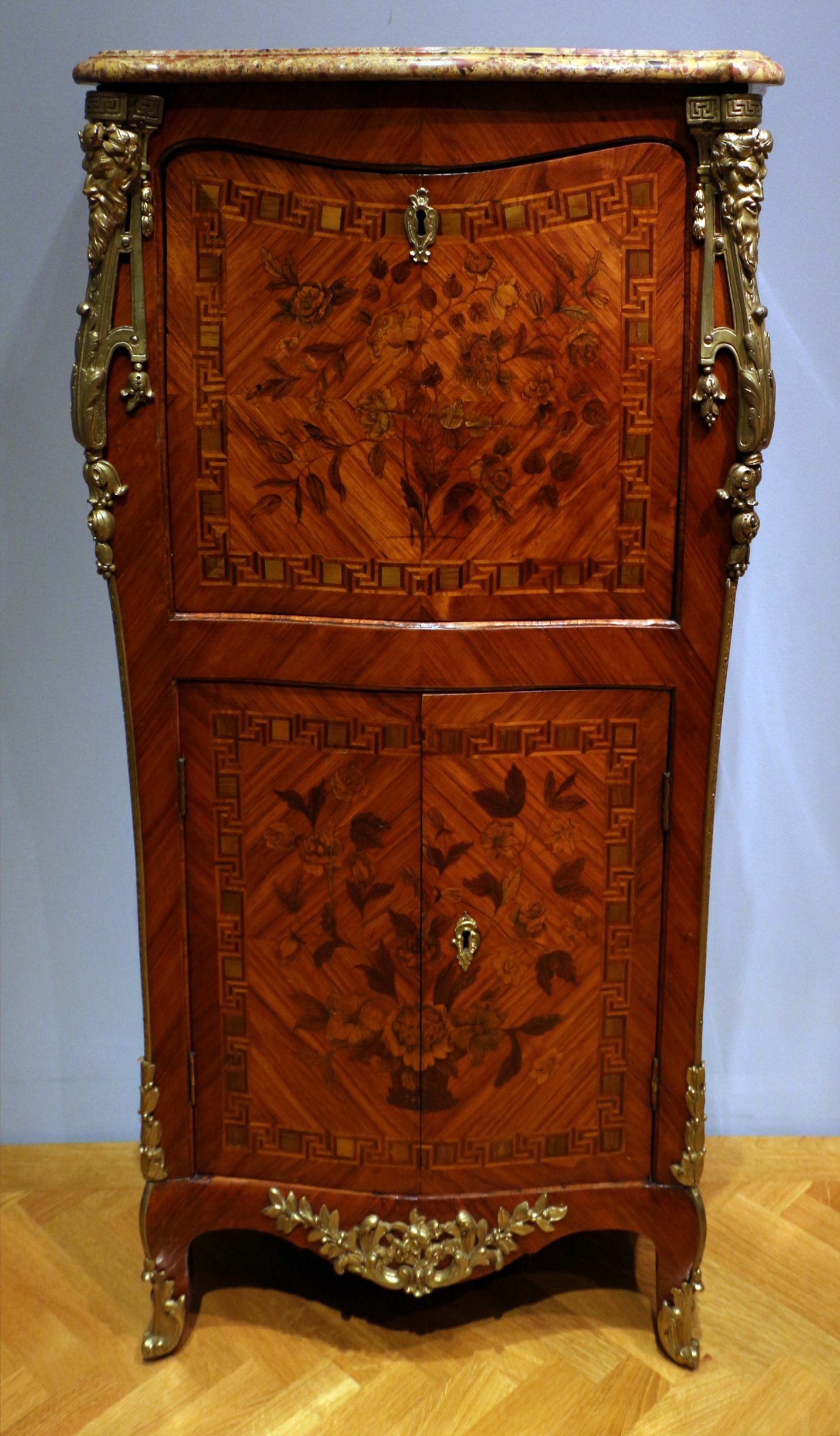 Furniture in the Cleveland Museum of Art